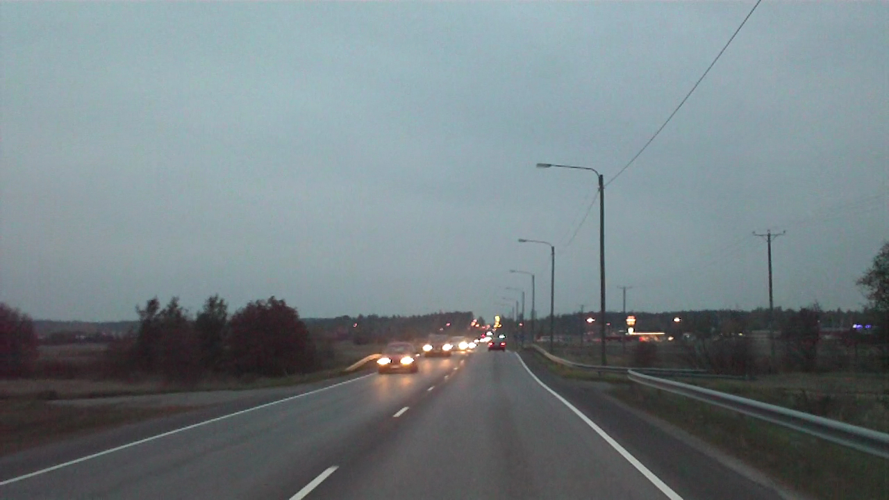 Highway 8 (E8) in Nousiainen, Finland.